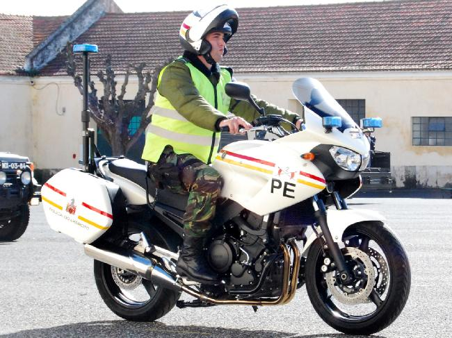 Portuguese Army Police Yamha TDM 900 from Regimento de Lanceiros 2